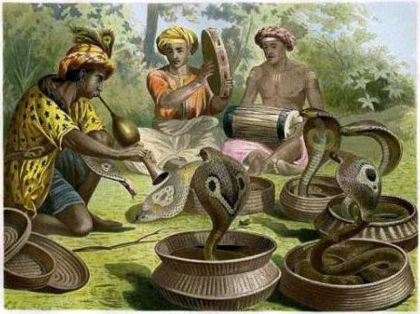 "Snakecharmers," a chromolithograph by Alfred Brehm, c.1883 Source: ebay, Jan. 2007